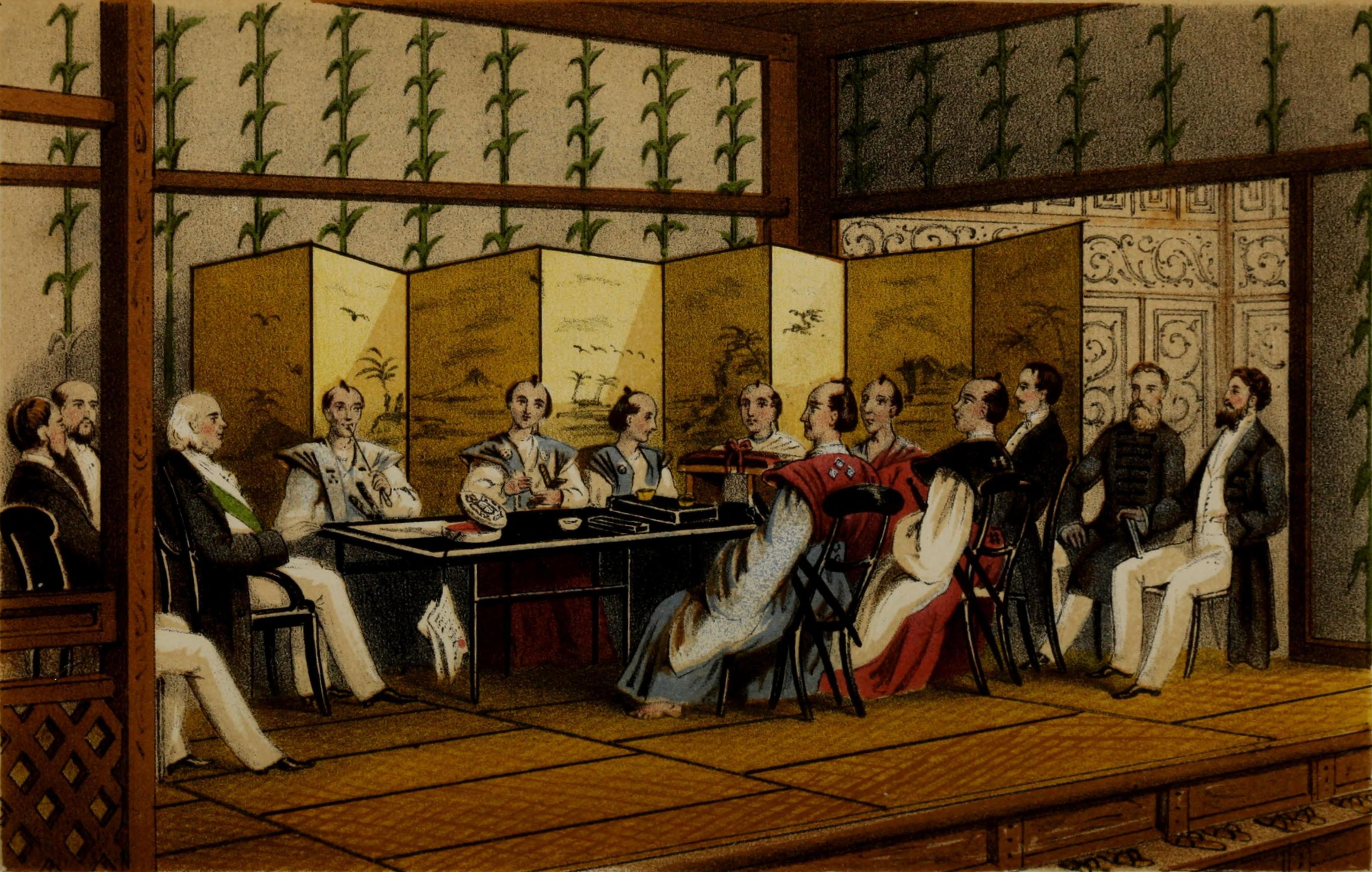 Exchange of full powers between the Earl of Elgin and the Japanese commissioners.